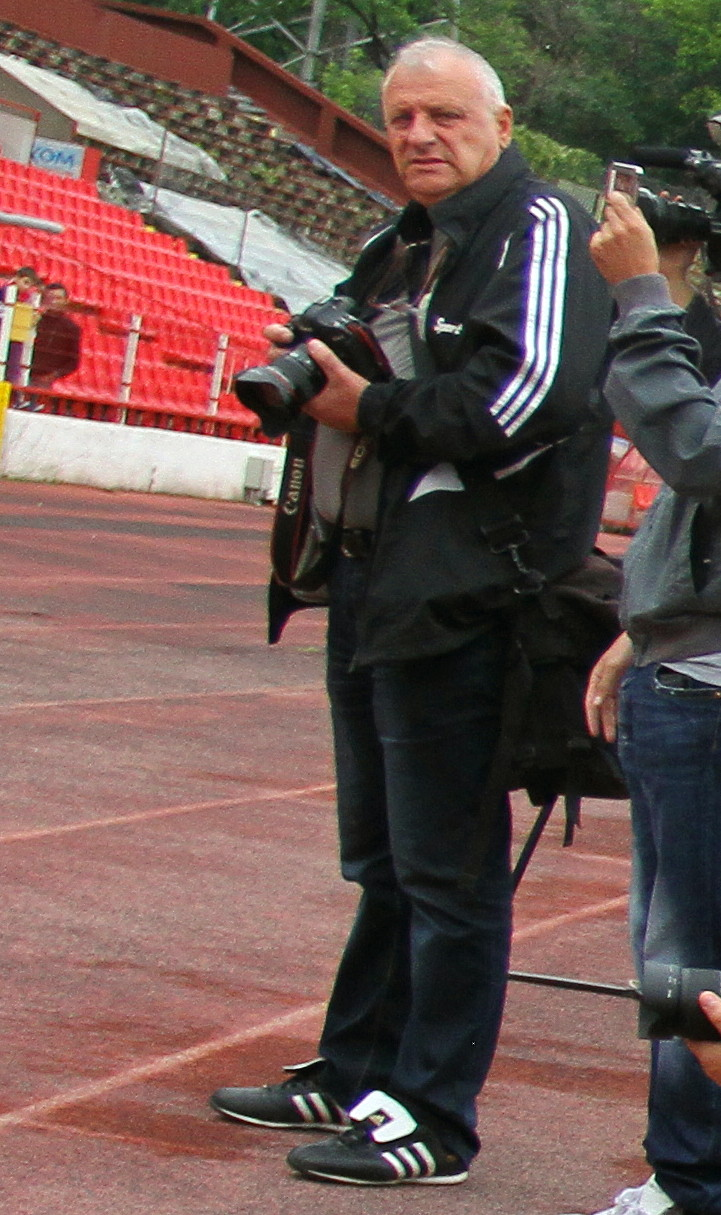 Bonchuk Andonov - Bulgarian sports journalist and photographer